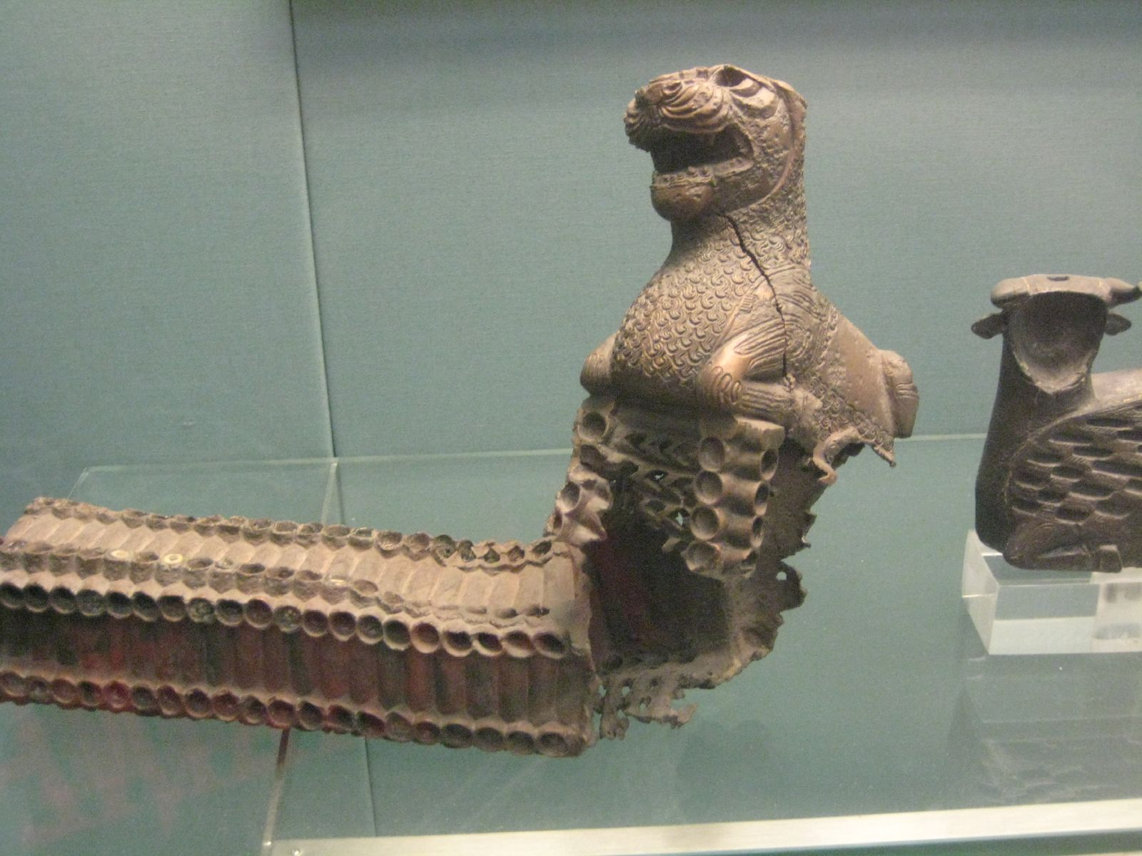 Cast and incised bronze furniture fittings. Urartian, late 8th century BC. From Toprakkale.